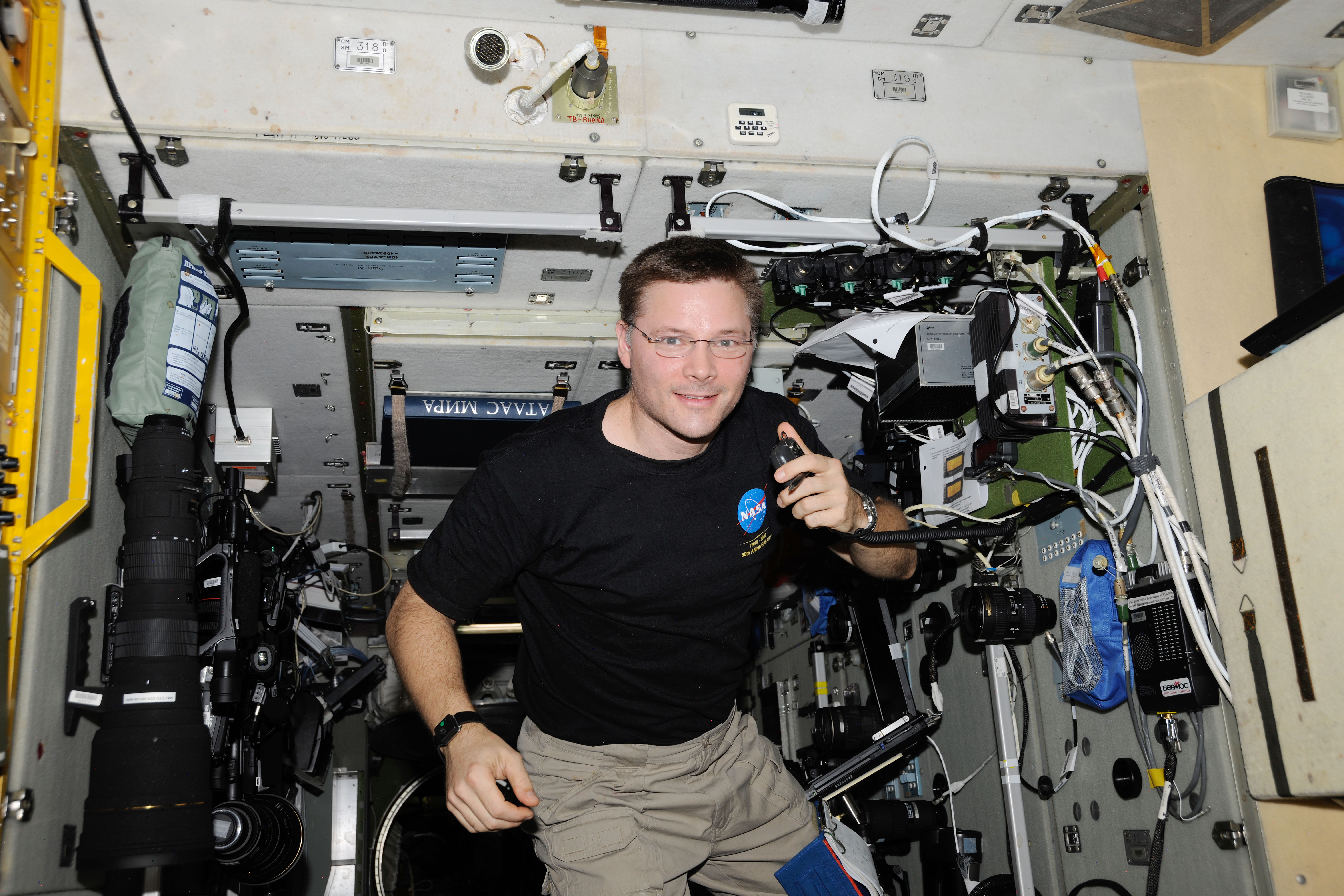 NASA astronaut Doug Wheelock, Expedition 24 flight engineer, uses a ham radio system in the Zvezda Service Module of the International Space Station.